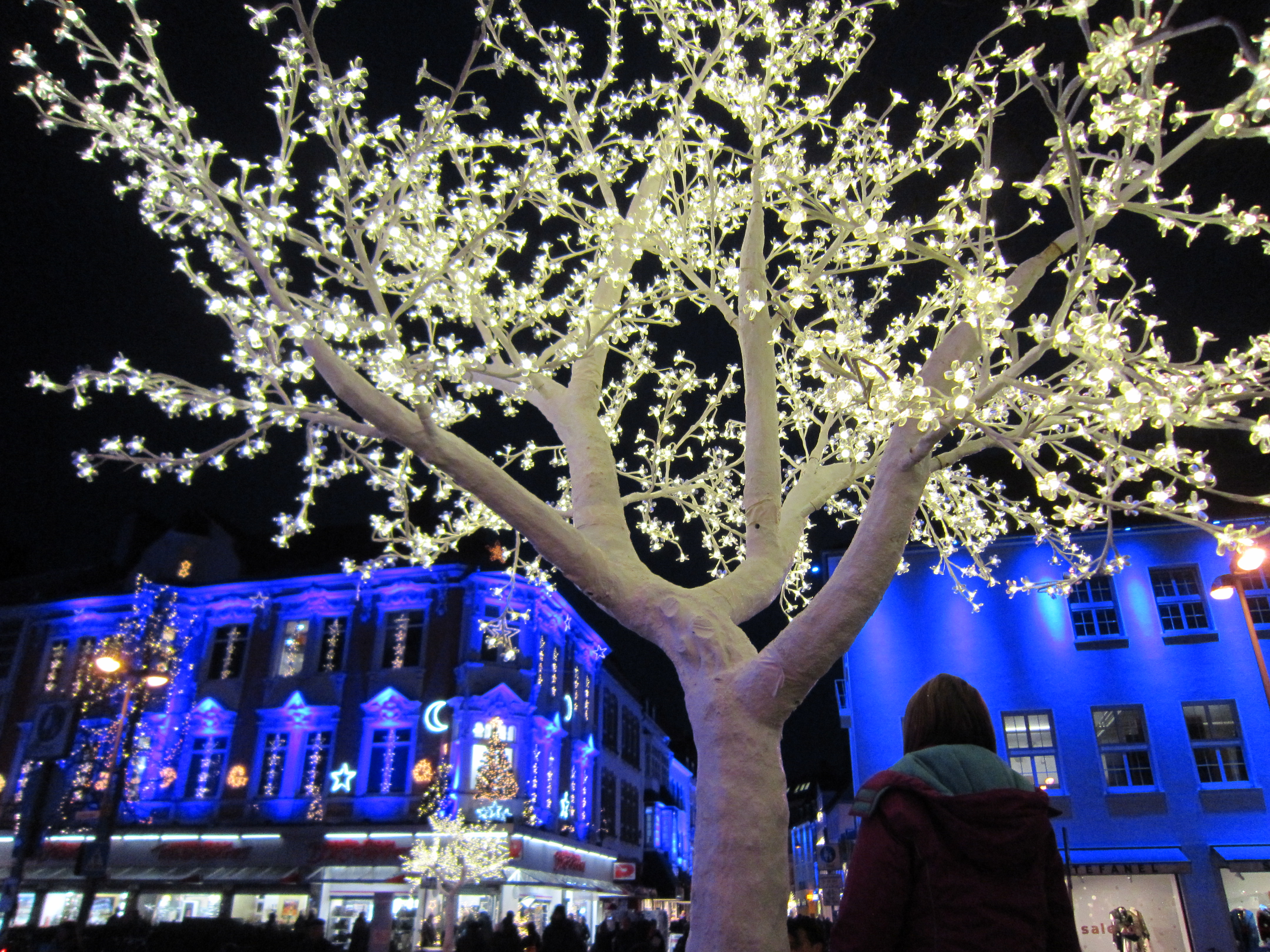 Blossom imitation by LED-lights and illuminated buildings in Osnabrueck before Christmas